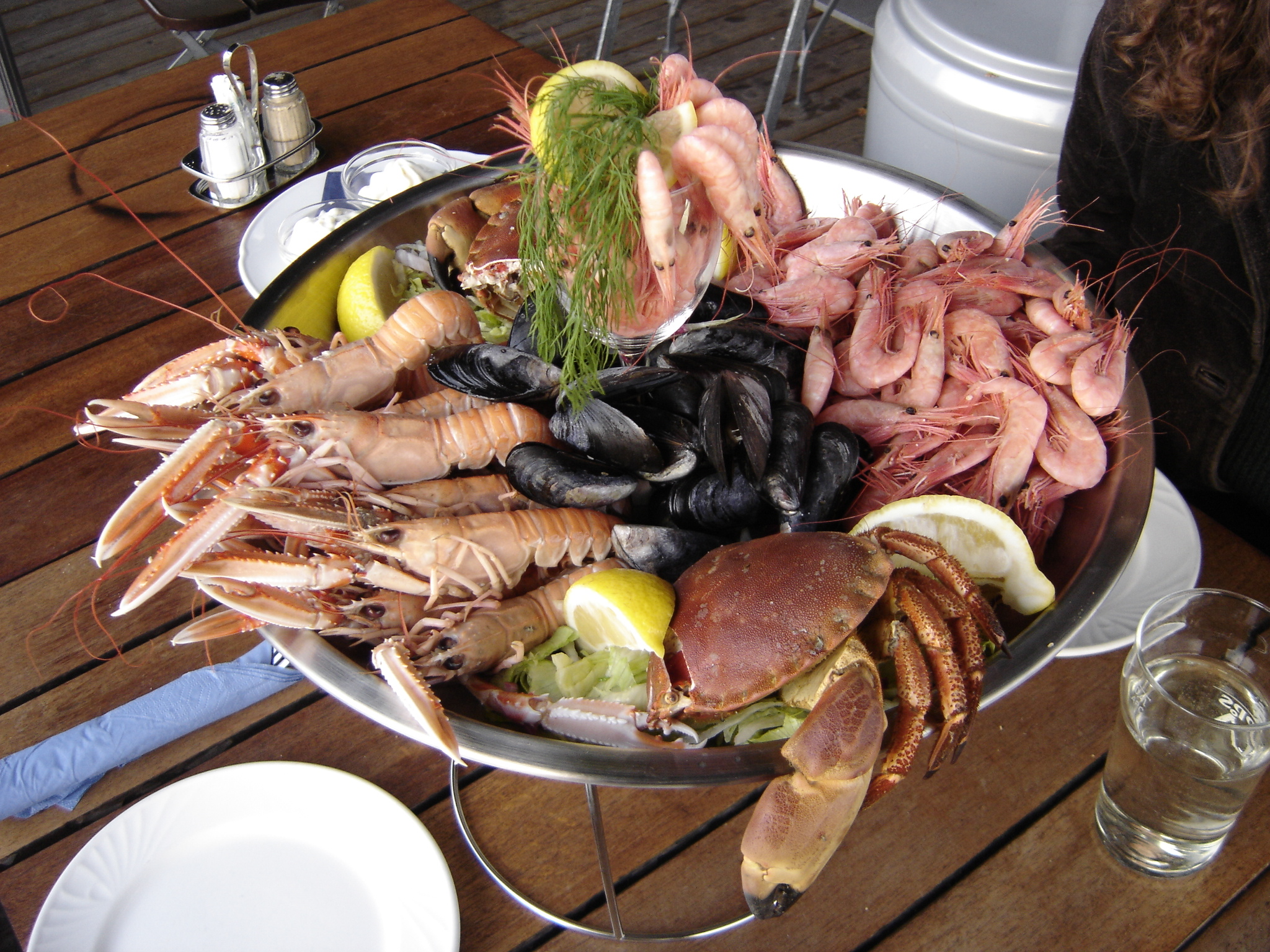 Seafood dish